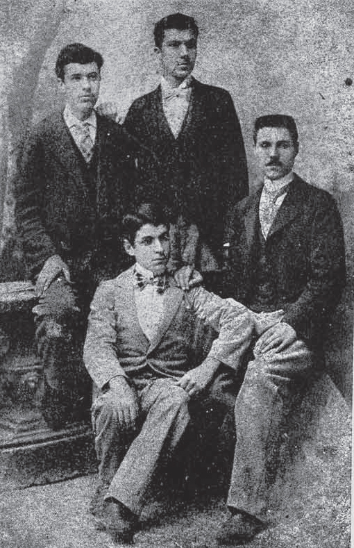 Hristo Manov and his fellows